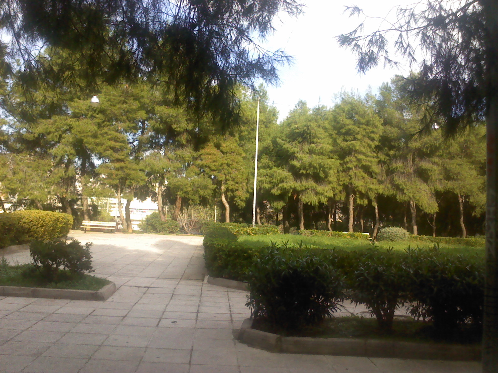 Square Eleftherias Nea Ionia